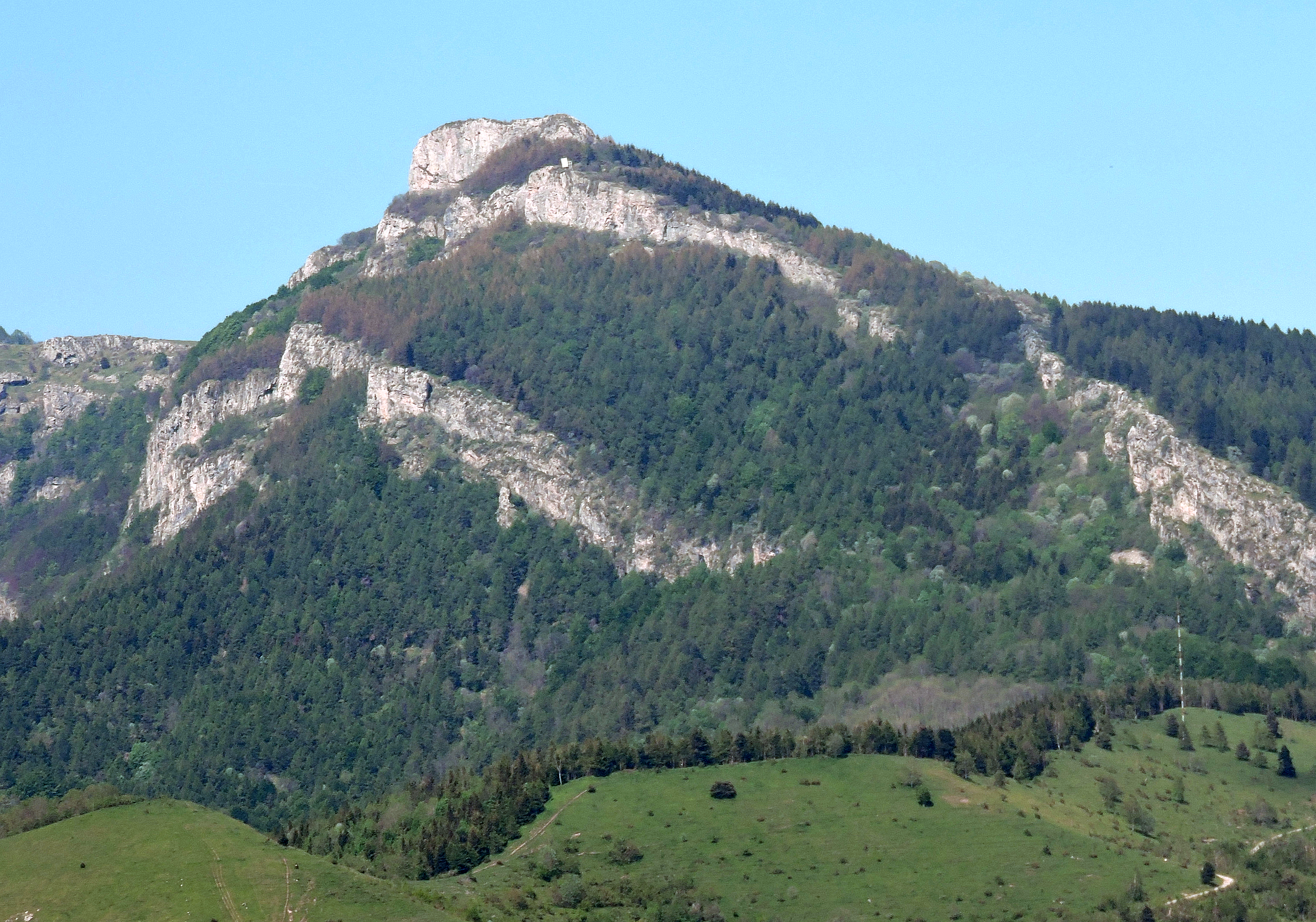 Monte della Guardia (Prealpi Liguri): view from Pozzanghi fort, near colle de Nava